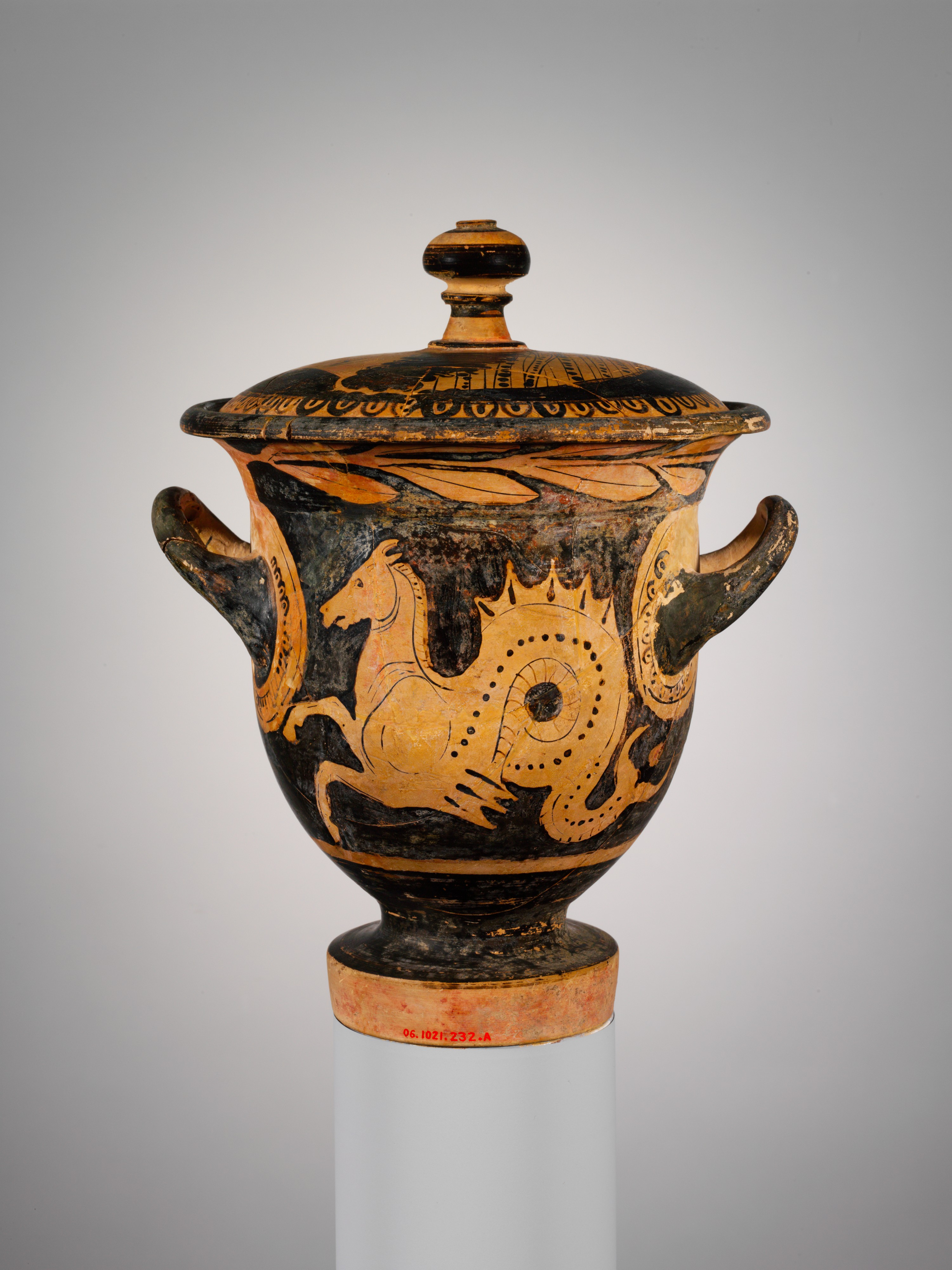 Terracotta bell-krater (mixing bowl) with lid; Greek, Boeotian; classical period